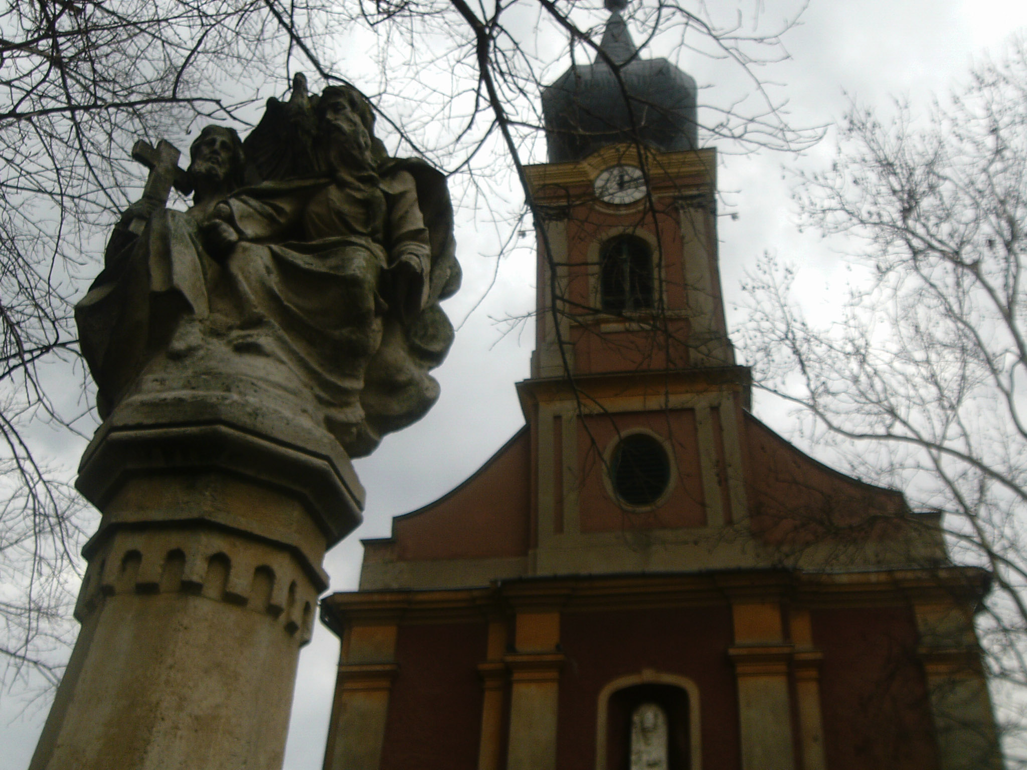 Sárszentmiklósi Szent Miklós püspök templom This is a photo of a monument in Hungary, Identifier: 3763